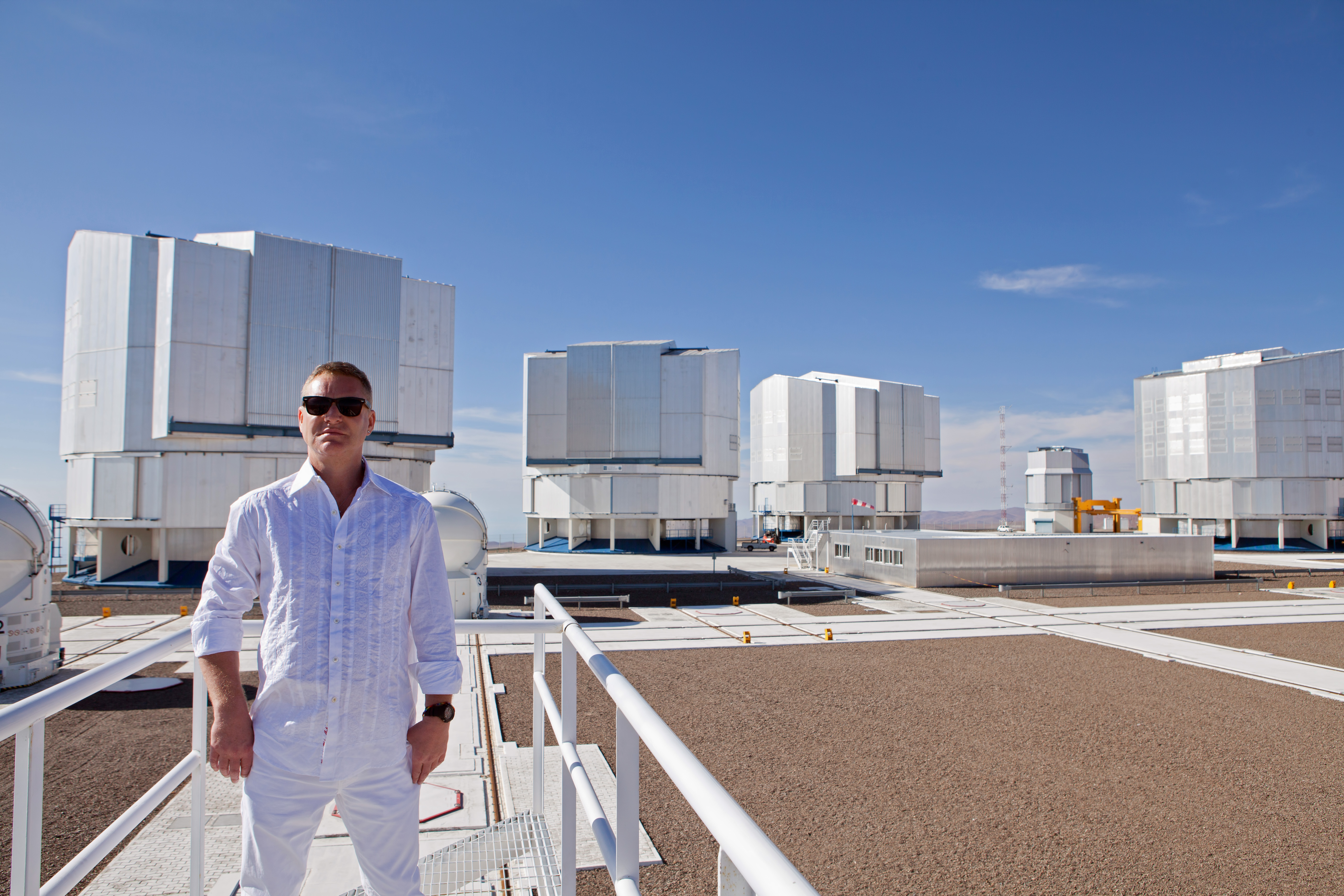 Andy Bell, the lead singer from the British synthpop band Erasure, is seen here posing in front of ESO’s Very Large Telescope on Cerro Paranal in Chile’s Atacama Desert. Andy Bell visited Paranal and took this opportunity to shoot an exclusive video Erasure — Fill Us With Fire (ESO 50th Anniversary Exclusive) for his latest single.